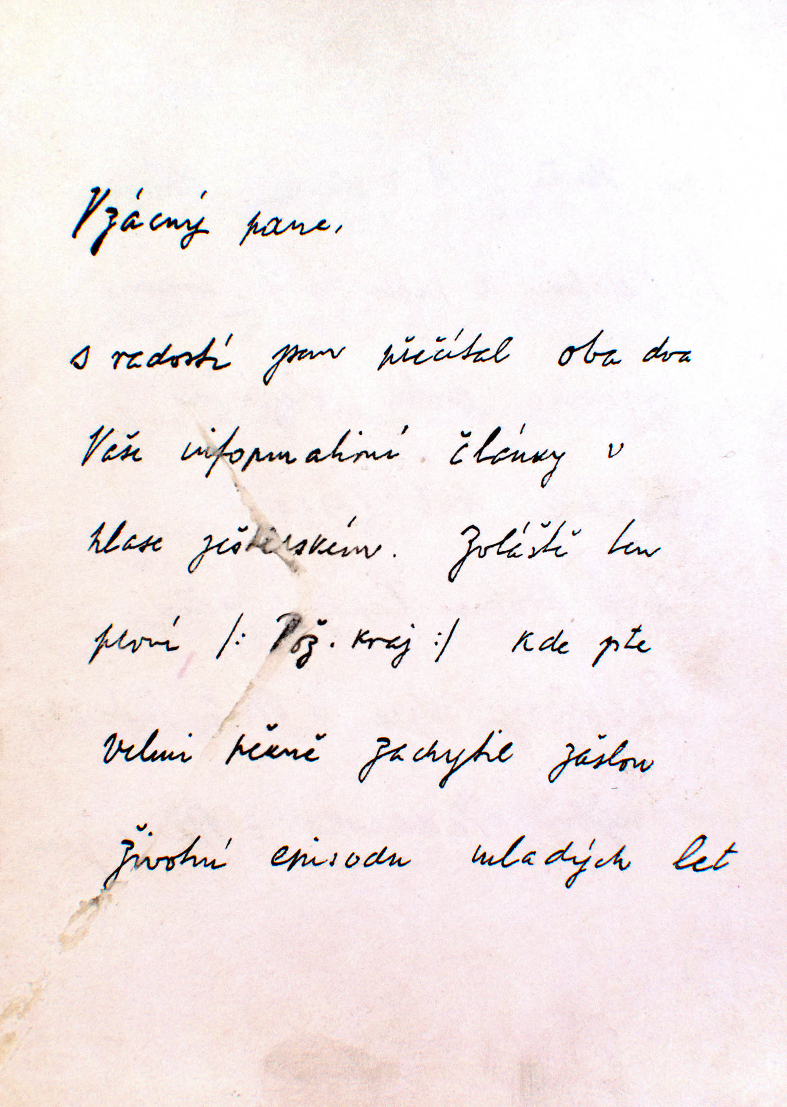 Letter from poet Vladislav Vašek aka Petr Bezruč to writer Stanislav Jandík